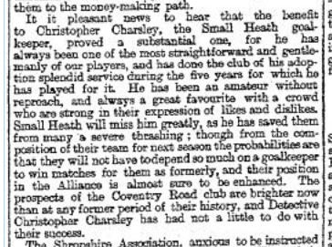 Extract from the "Notes on Sport" column in the English newspaper Birmingham Daily Post, paying tribute to Small Heath F.C. footballer Chris Charsley ahead of his retirement from football